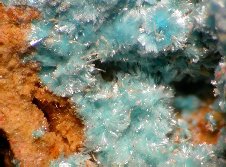 Serpierite Locality: Genna zinc smelter (slag locality), Letmathe, Iserlohn, Sauerland, North Rhine-Westphalia, Germany Field of view 4 mm. Specimen and photo Leon Hupperichs.